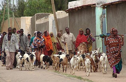 Street scene in Jijiga, Ogaden. Image taken by Charles Fred on flickr. The creator has granted GFDL licensing and permission for use in the wikimedia project.